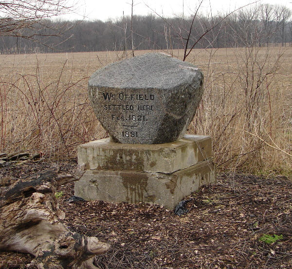 Offield Monument in Balhinch, Montgomery County, Indiana. It reads: Wm Offield settled here Feb. 1821. — 1881